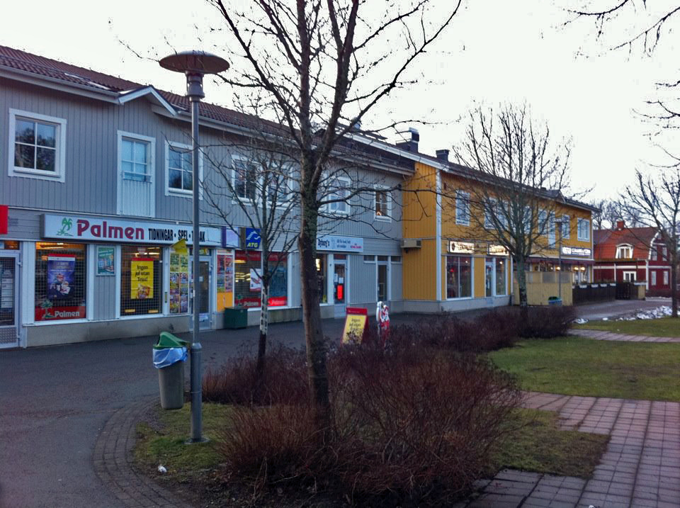 Storvreta centre. Storvreta is the third largest urban area in the municipality of Uppsala, Sweden, located some 15 km north of Uppsala city.